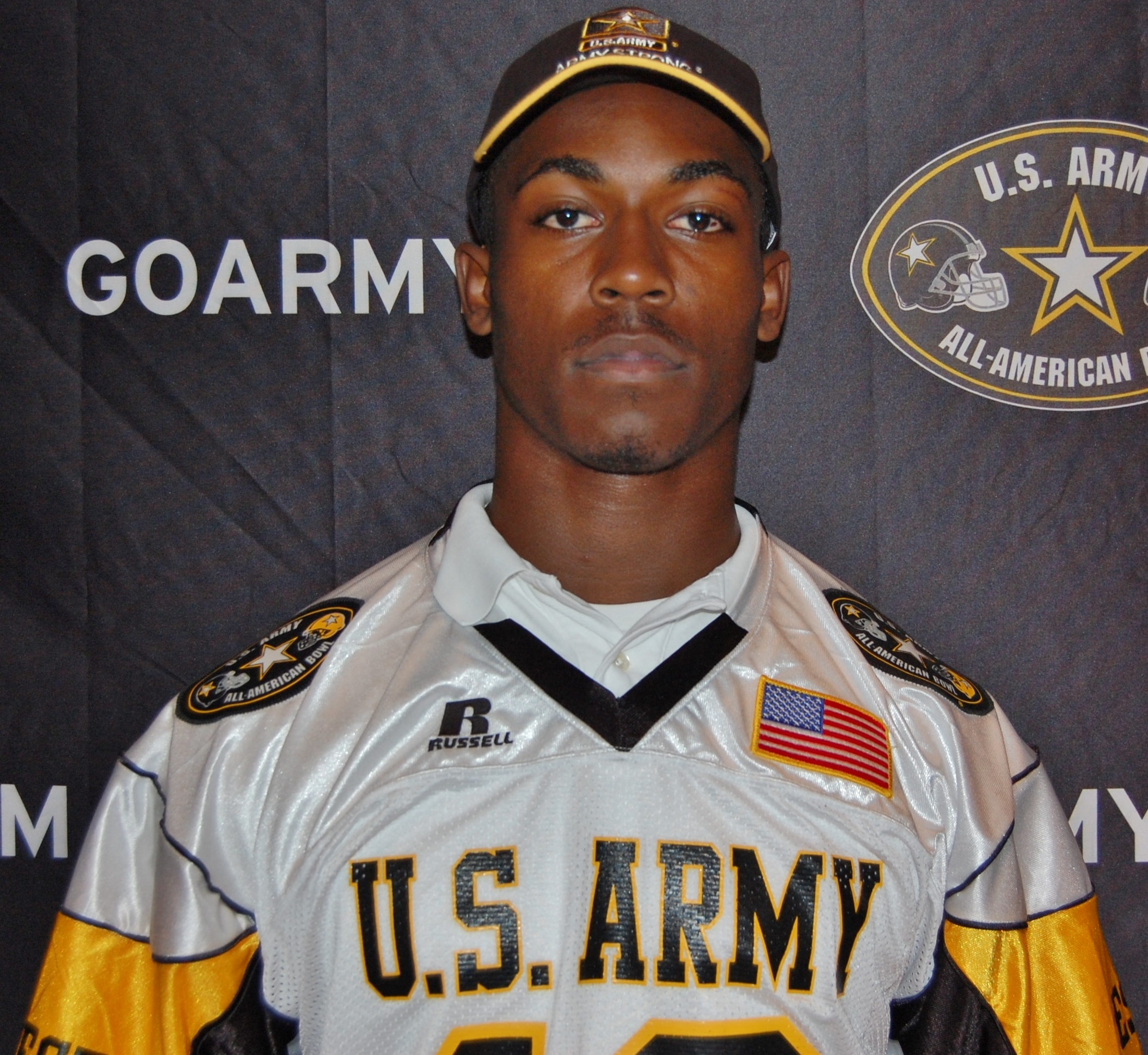 T.J. Yeldon a running back from Daphne High School, AL poses for his headshot after receiving his invitation to play in the 2012 U.S. Army All-American Bowl.